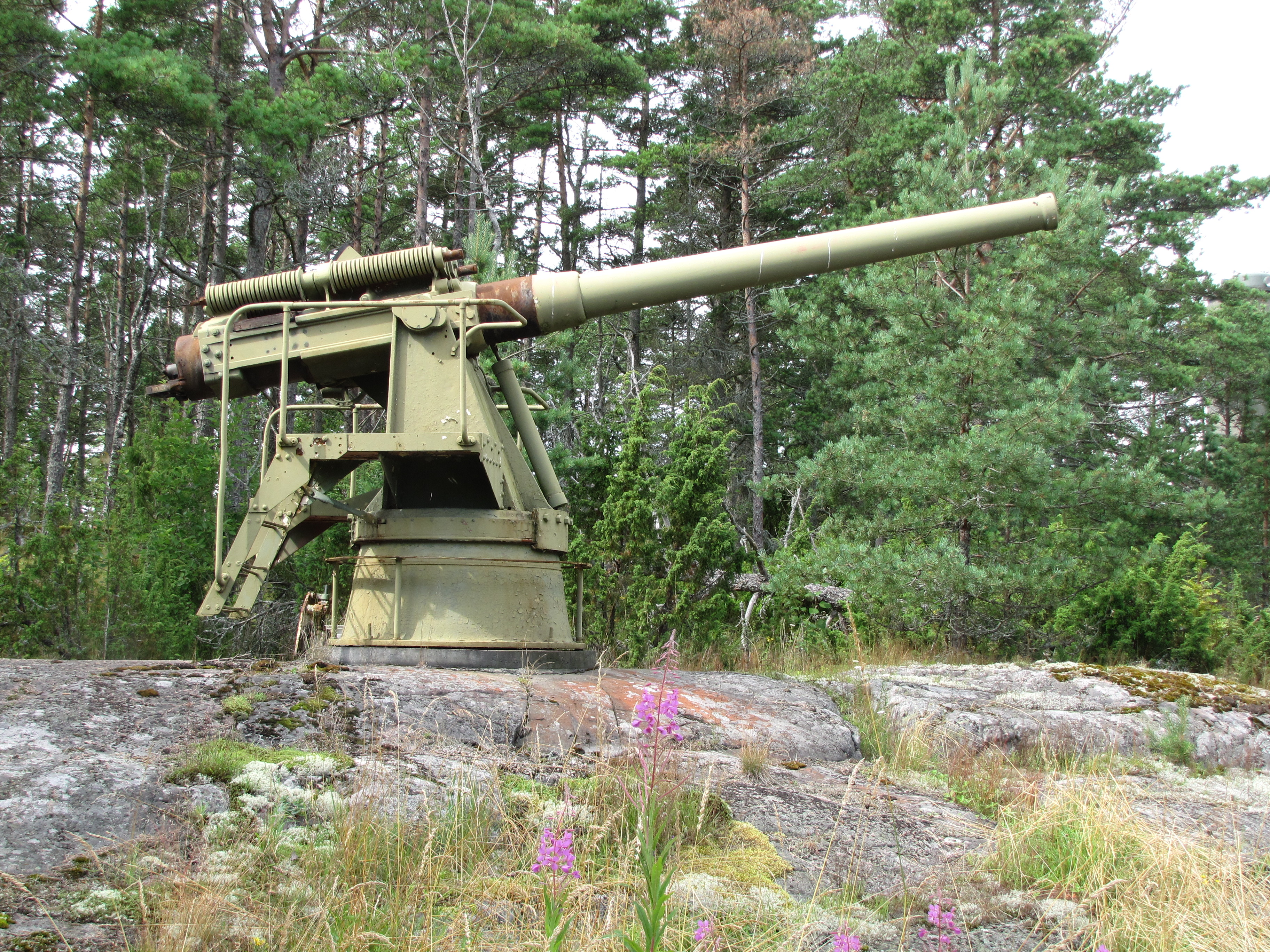 120 mm 45 calibre Canet coastal gun in Kuivasaari. This gun has been modified from original 1892 model, including rotating the gun 180 degrees so that the recoil system is on top of the barrel to increase elevation. This gun was in Finnish coastal artillery school until 1993.